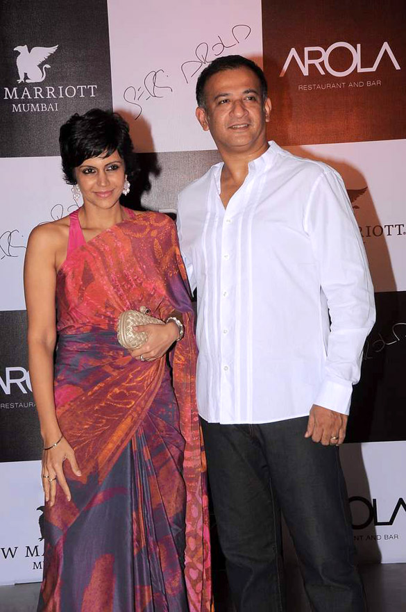 Mandira bedi, raj kaushal at the Launch of new restaurant 'Arola' at J W Marriott